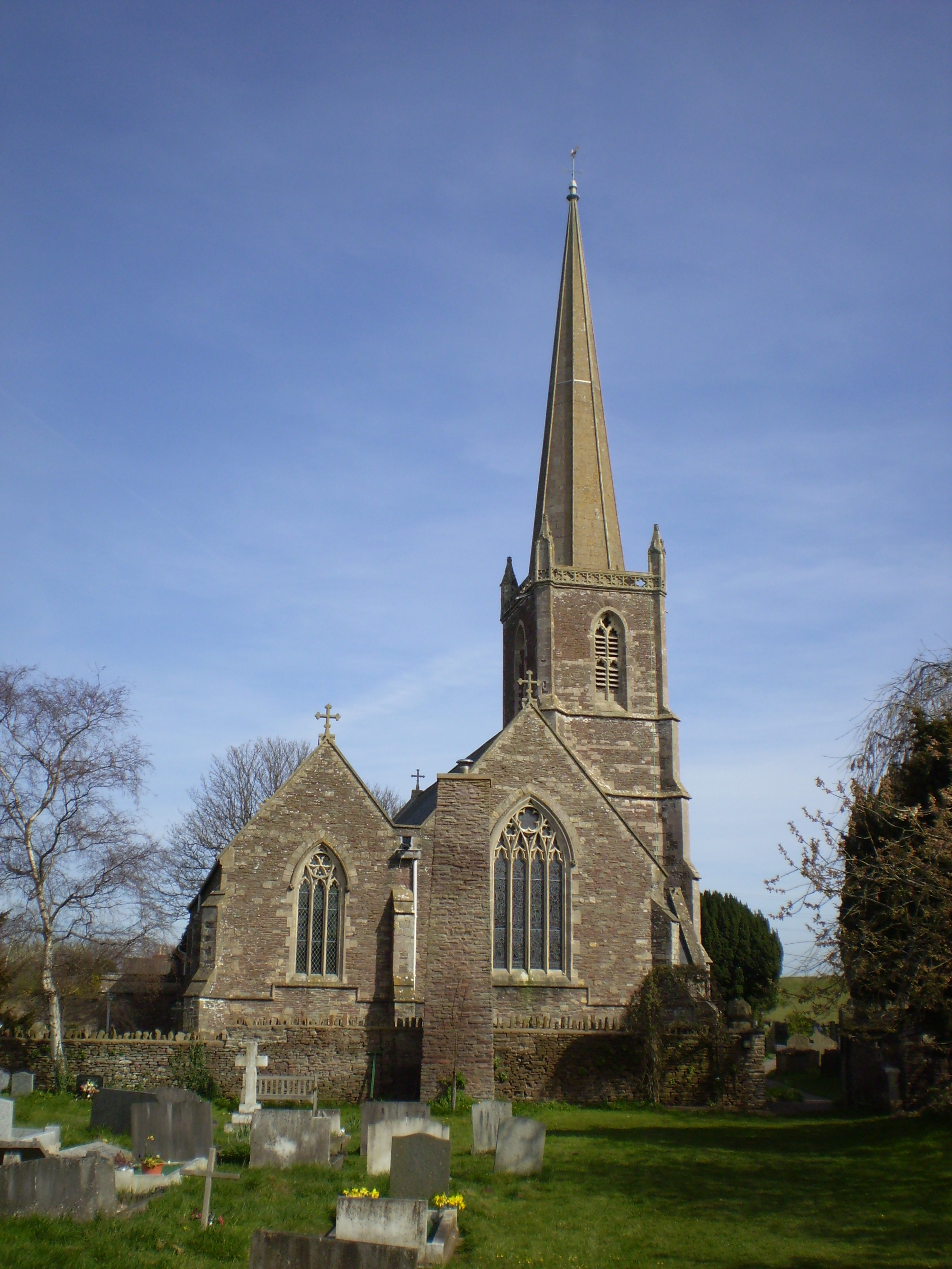 St Michael the Archangel parish church, Winterbourne, Gloucestershire from the west from the churchyard extension